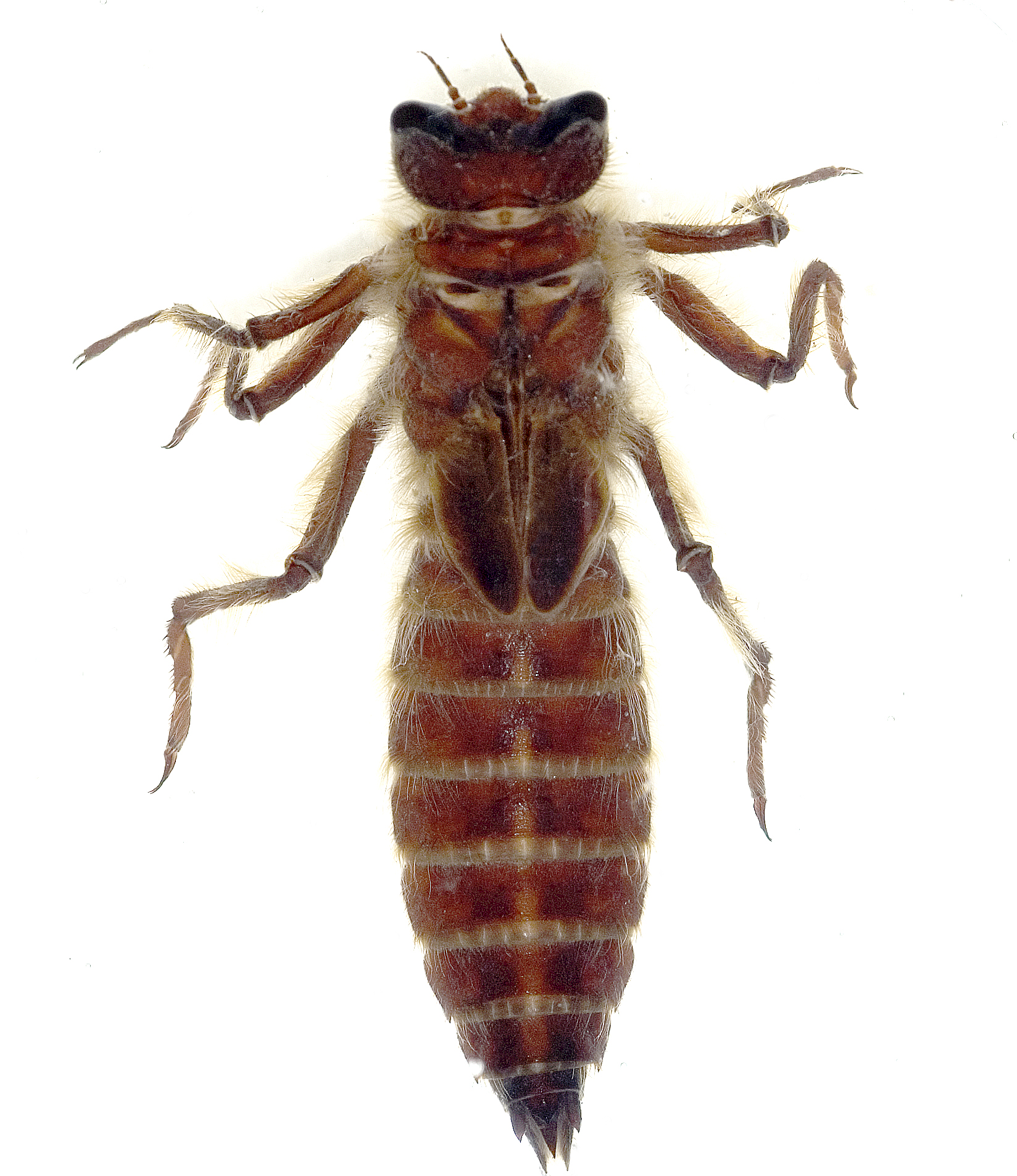 Larva of Neopetalia punctata. Dorsal view.